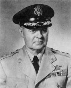 Lieutenant General Idwal H Edwards was commander of United States Air Forces in Europe